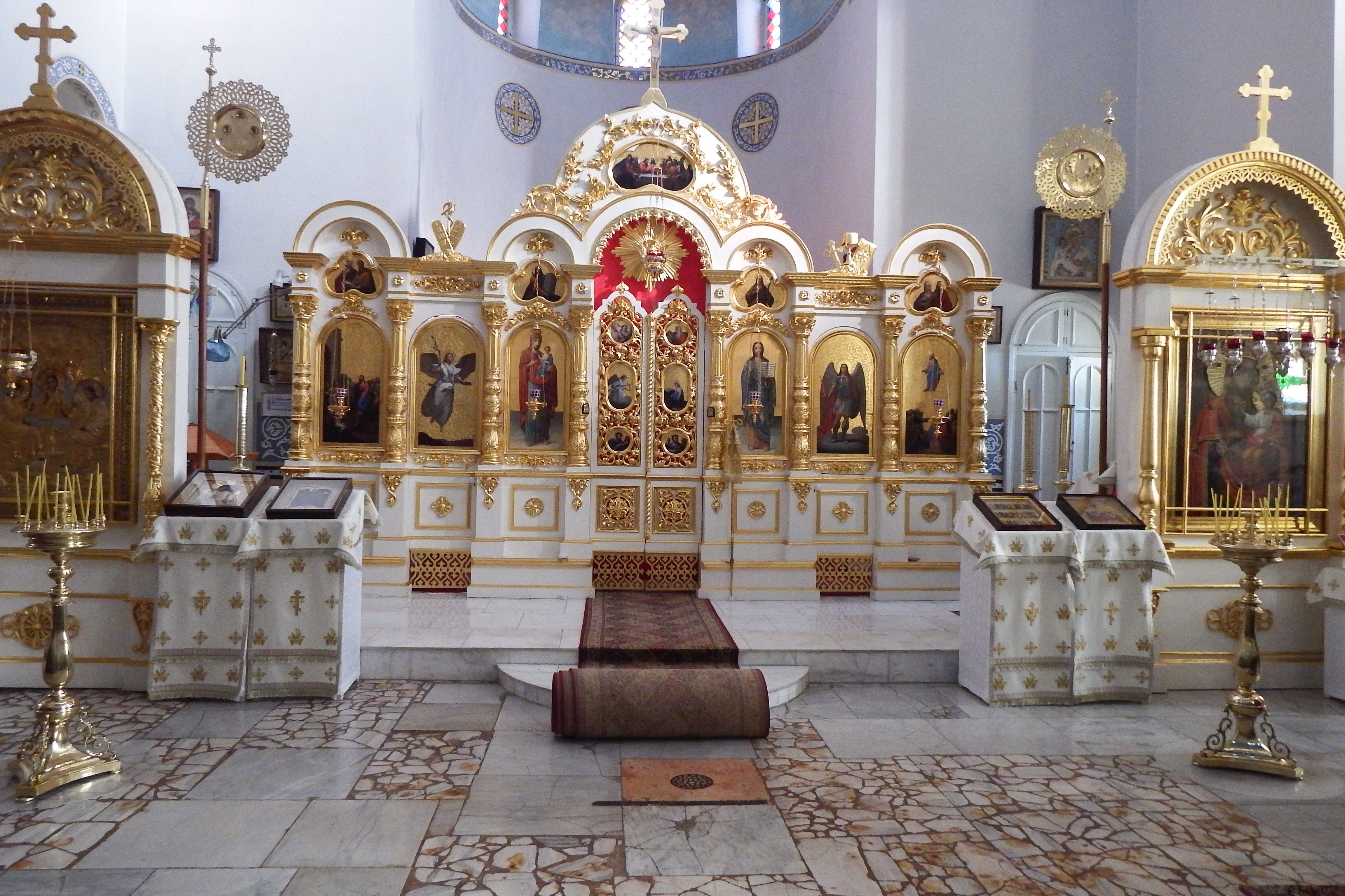 The iconostatsis of the church of the Ascension at the Eleon Monastery